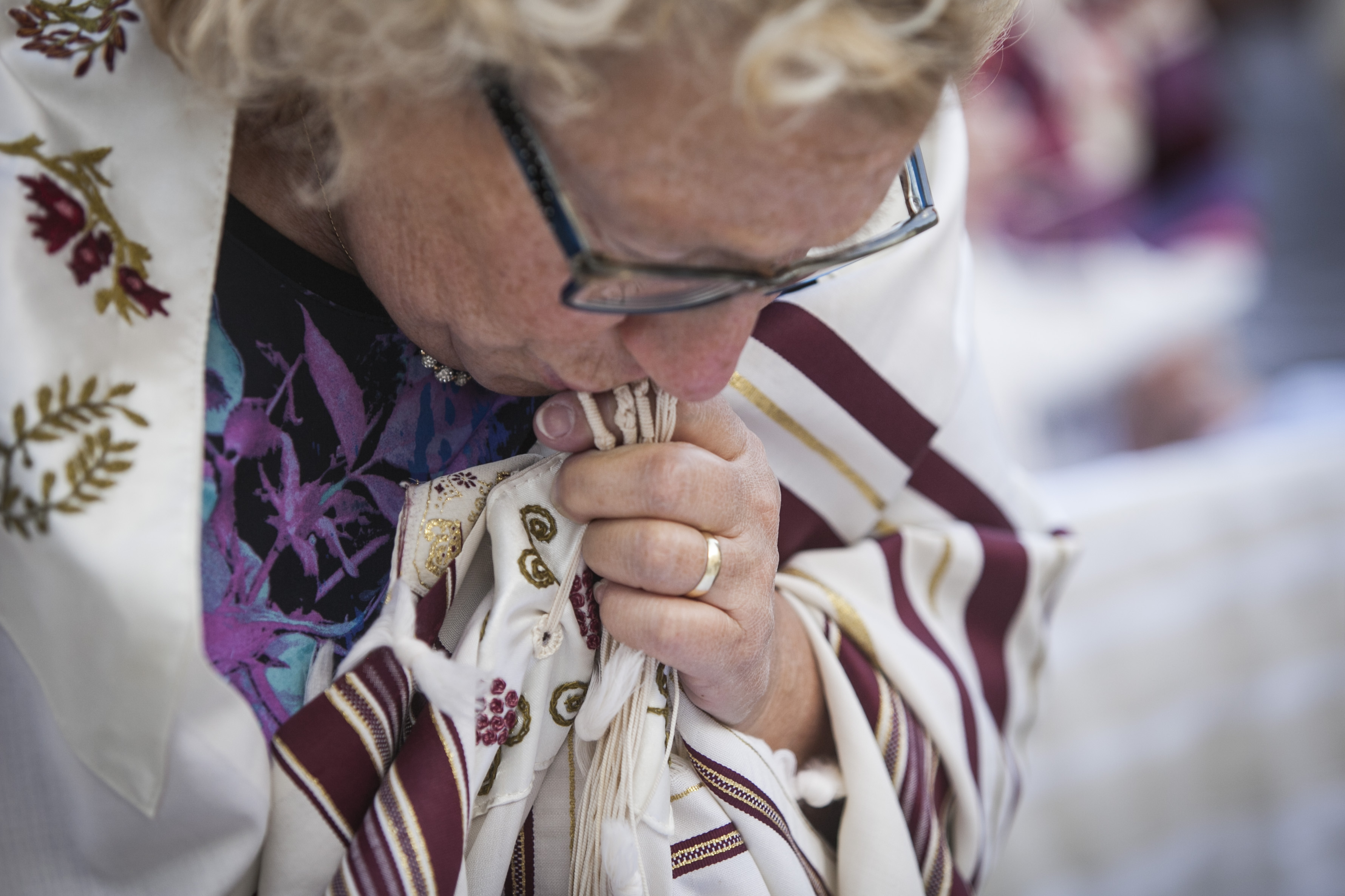 A women with a Tallit